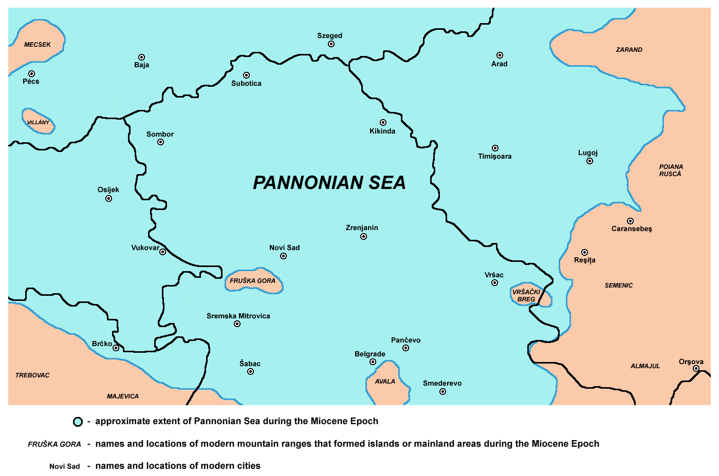 Detailed map of the south-eastern part of Pannonian Sea during the Miocene Epoch.